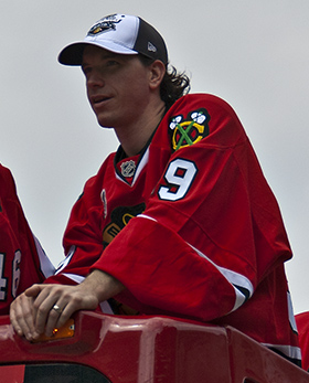 Cristobal Huet at the Chicago Blackhawk 2010 Stanley Cup victory rally.